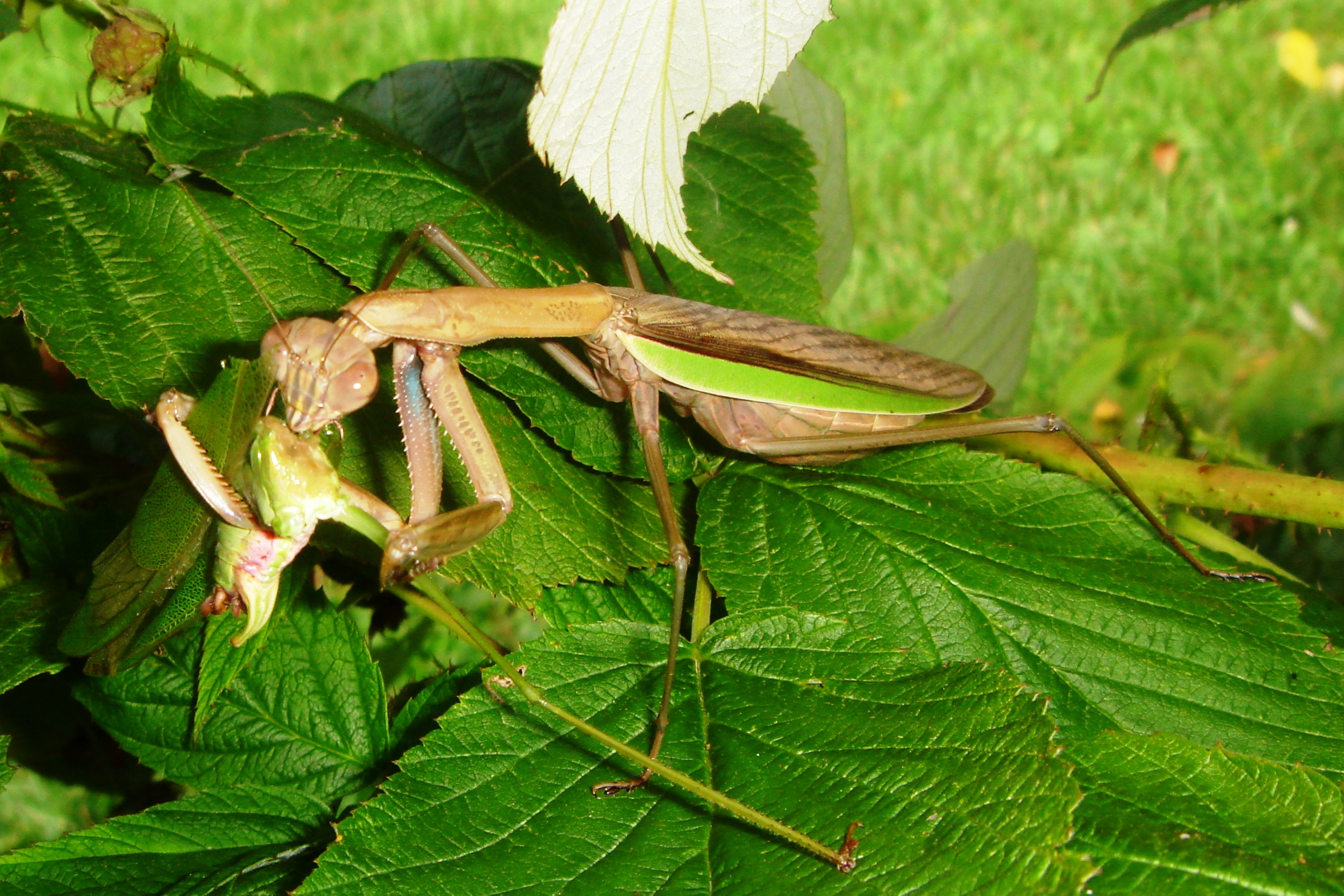 Praying Mantis, Teondera sp. (Tenodera aridifolia sinensis) female eating a male long horned grasshopper (not a male mantis).